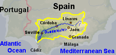 Map of the Guadalquivir River basin, Spain.